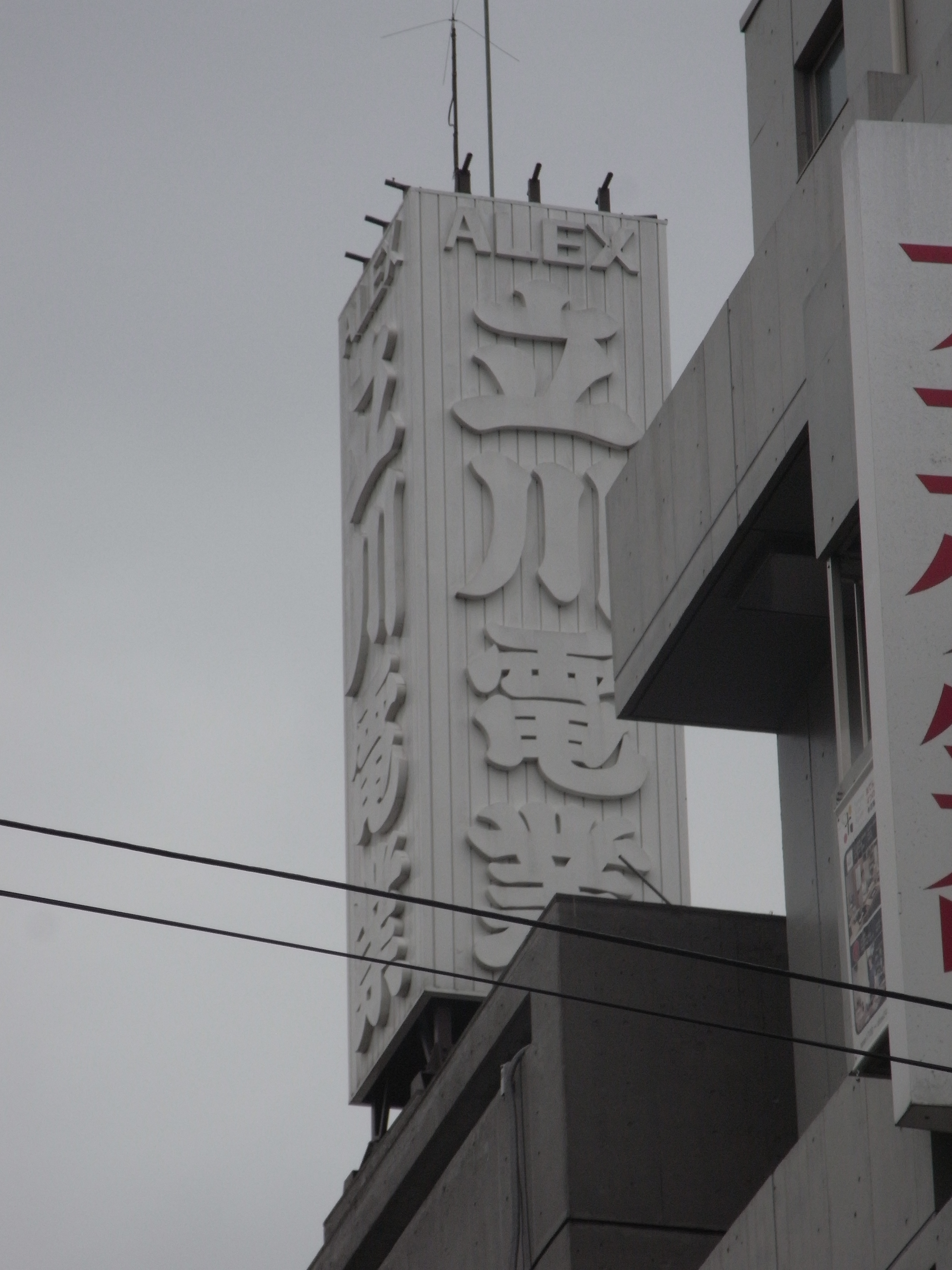 ALEX TACHIKAWA-DENGYO is the appliance store that exists in Tokyo before.